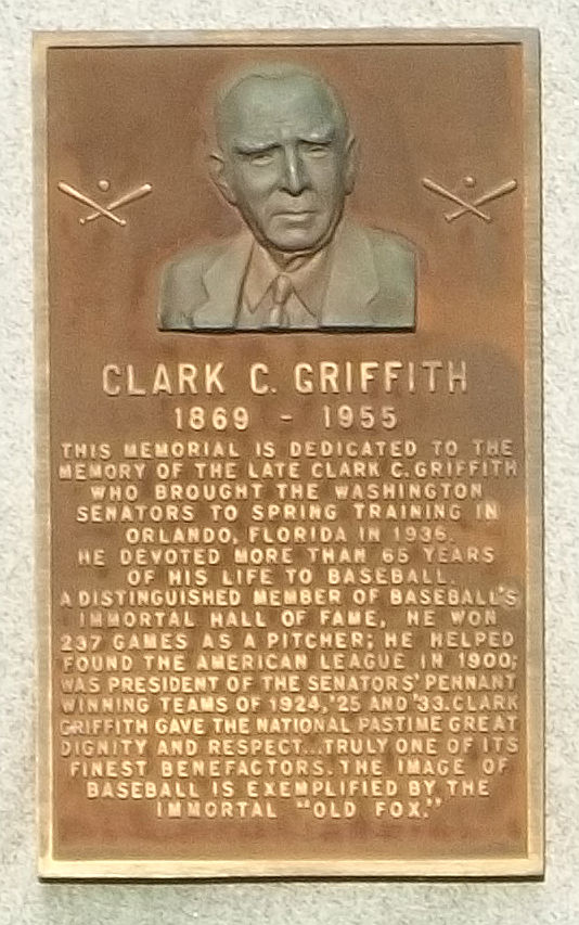 Orlando, Florida: Tinker Field: Memorial to Clark C. Griffith